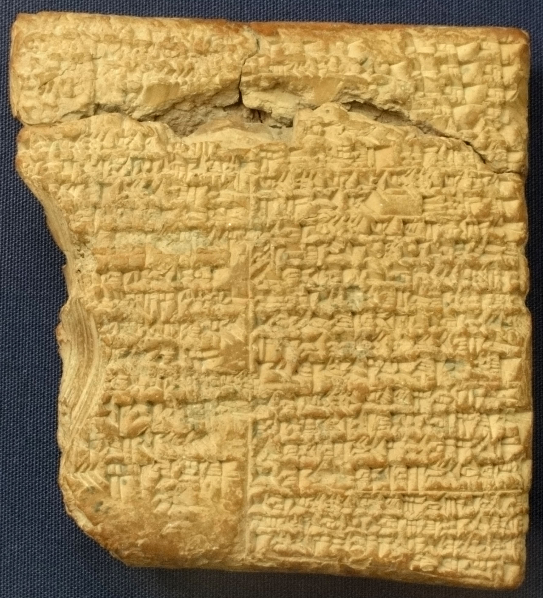 Cuneiform tablet showing the rules of Ur.